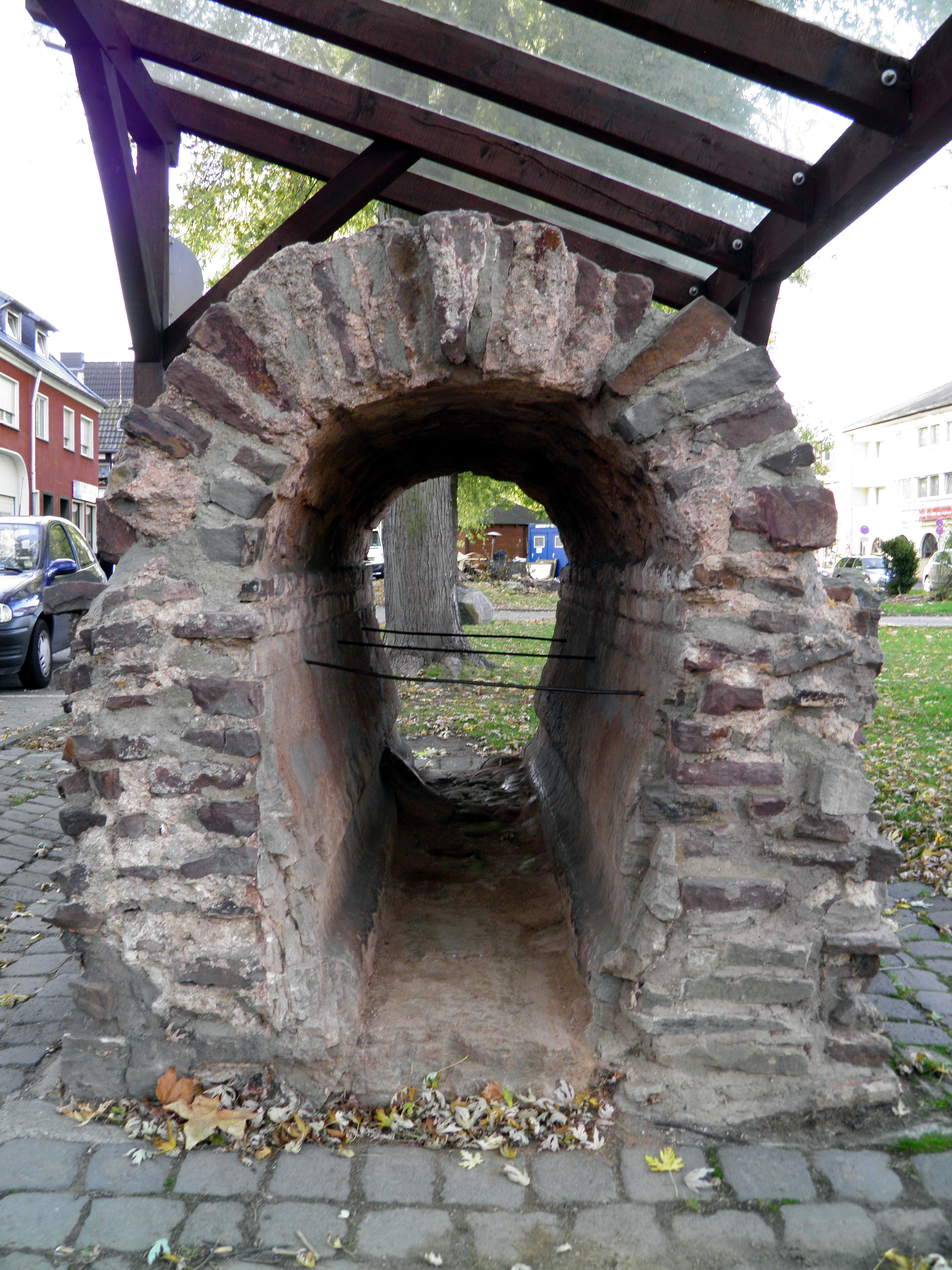 Remnants of an ancient Roman aqueduct have been excavated in the boundaries of Rheinbach. This subterranean aqueduct was built in the 2nd century A.D. to transport water from the Eifel hills to the city of Cologne. In the middle ages material from the aqueduct was used to build the towers and the town wall; pieces are still visible at the Wasemer Turm. Then it was forgotten till 20th century archeologists rediscovered it. A piece of the original aqueduct has been put up in Martinstraße in front of the post office. Read more